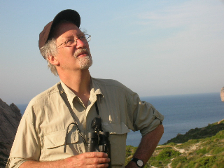 The writer and ornithologist Jonathan Elphick photographed at Boquer Valley, Mallorca.